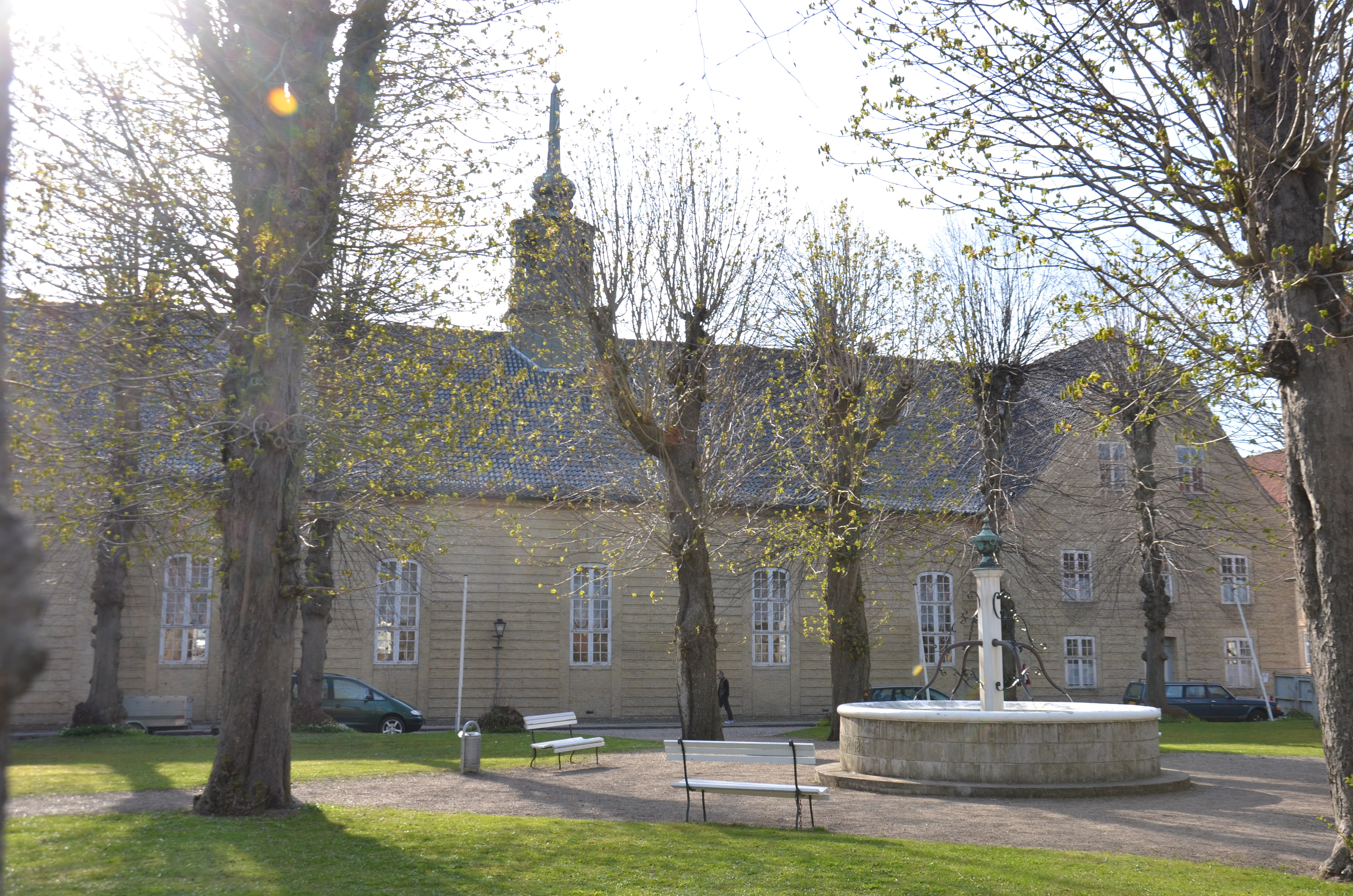 The Church Square at Christiansfeld,wih the church and the village well.